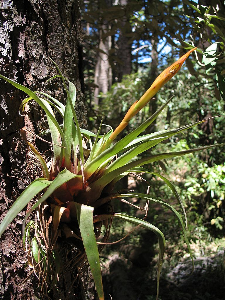 Tillandsia cryptopoda in habitat in El Salvador, Dept. Santa Ana, Parque Nacional Montecristo; 1841m.